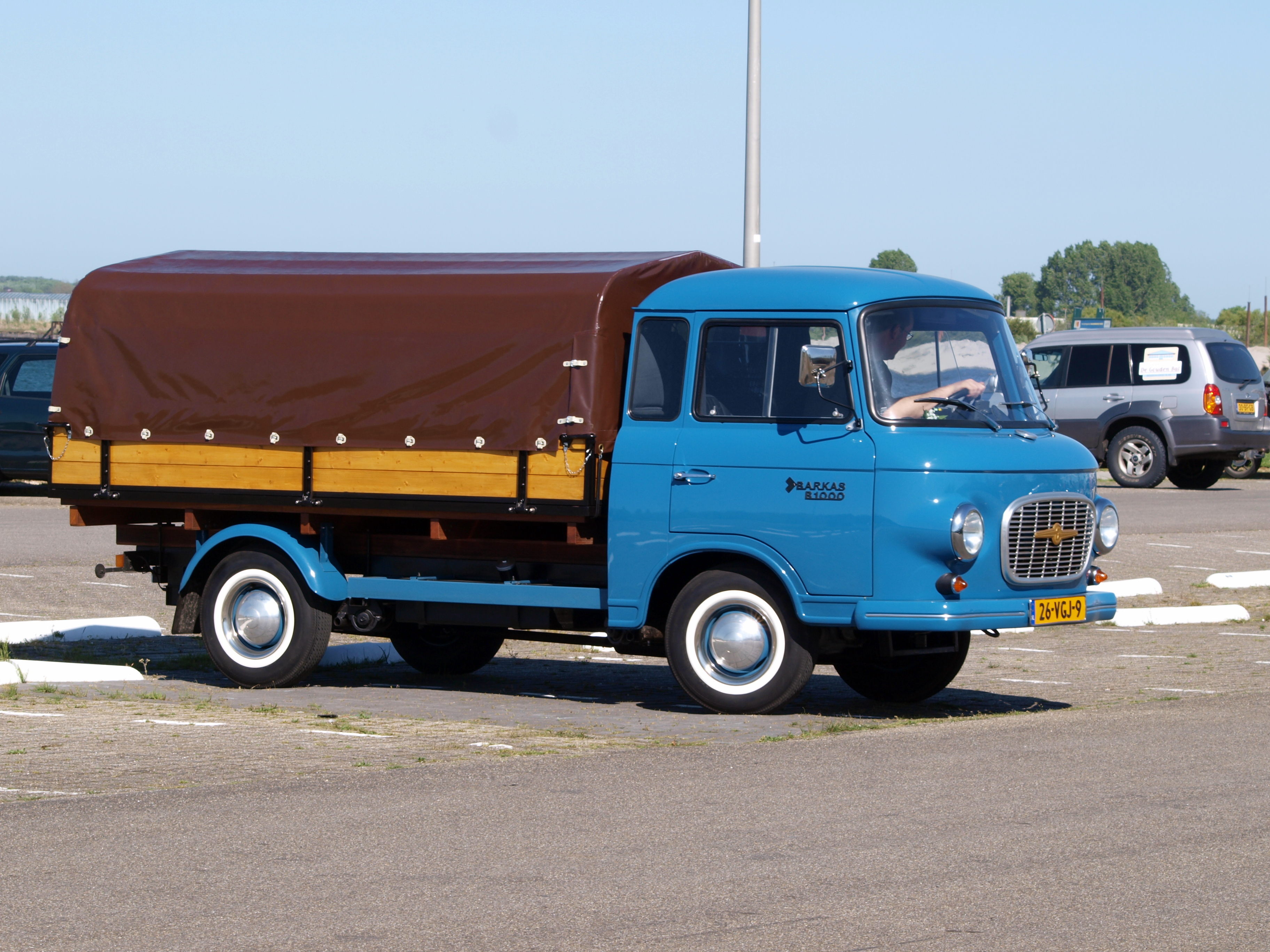 Photographed at Valkenburg, The Netherlands